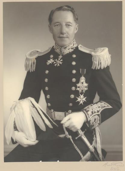 An image of Lord Huntingfield as Administrator in 1938, titled "His Excellency Lord Huntingfield, Administrator of the Commonwealth".